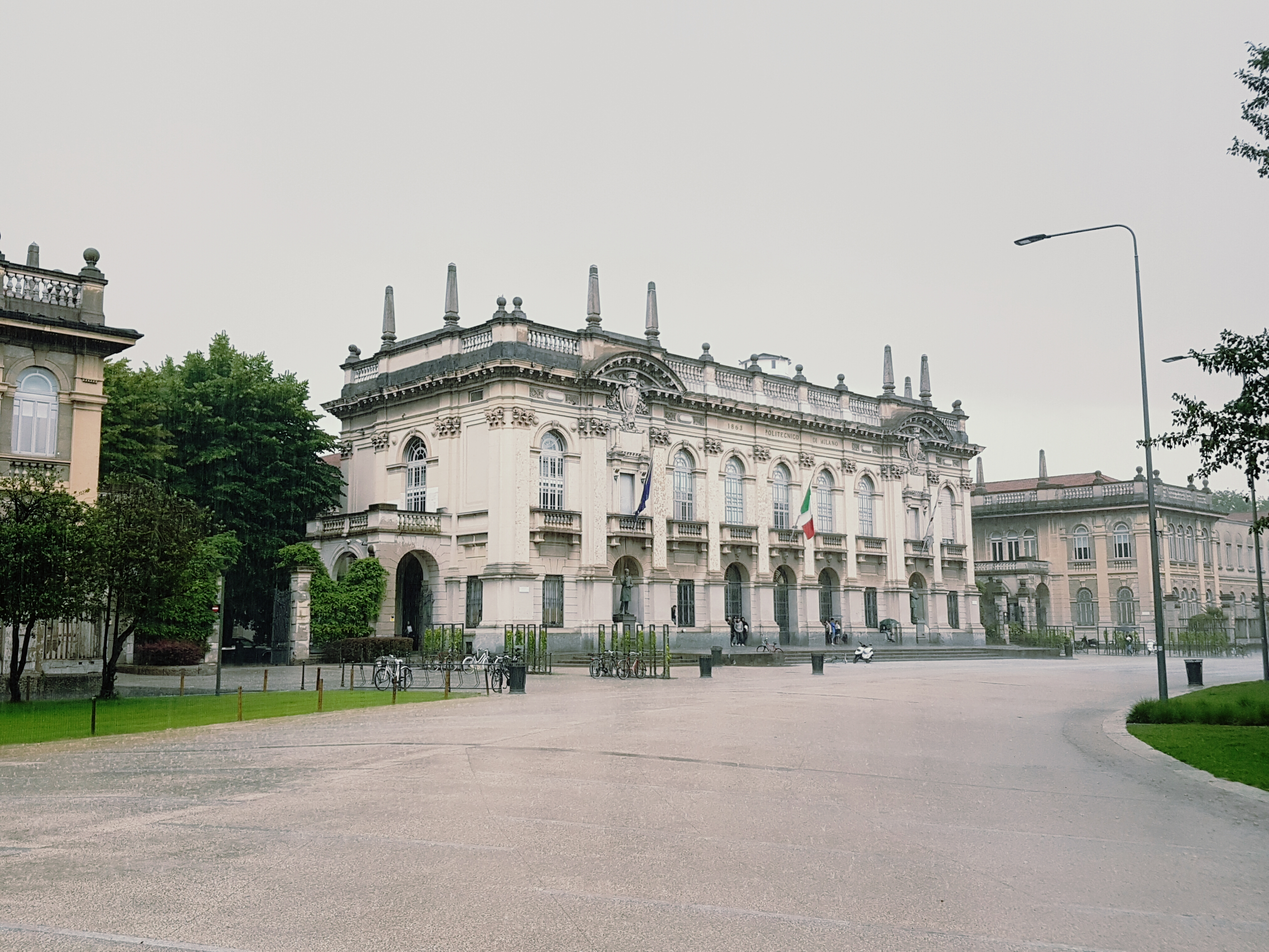 Picture of Politecnico di Milano, main building in Leonardo campus.